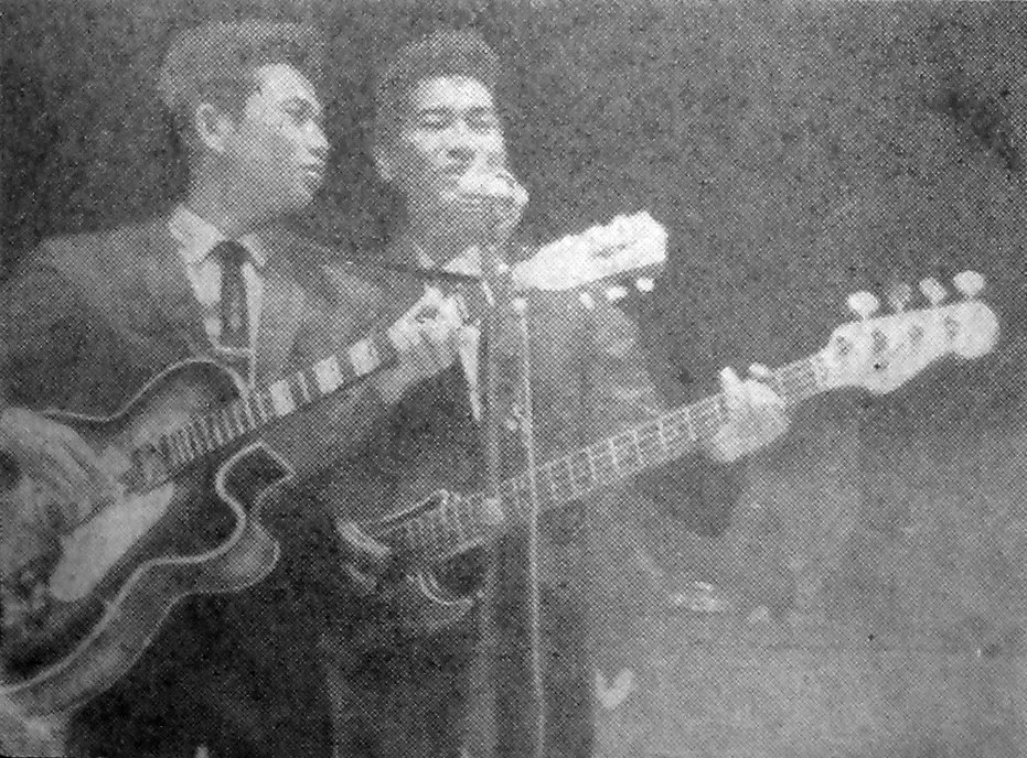 Koes Bersaudara performing at the opening ceremony of Ganefo